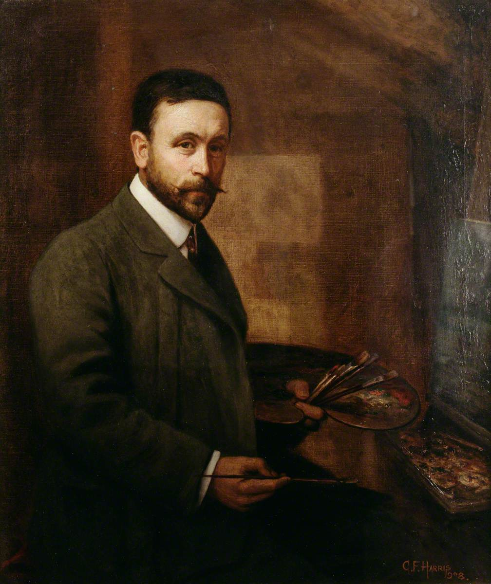 A painting from the Framed Works of Art collection at the National Library of wales.